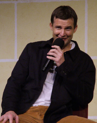 Peter Flemming actor in Thistle Hotel Heathrow in 2006